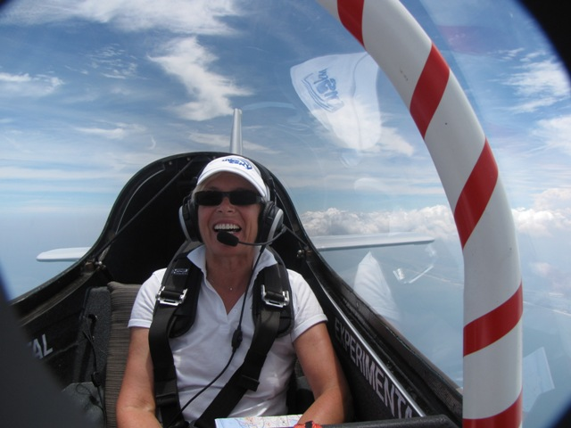 inside